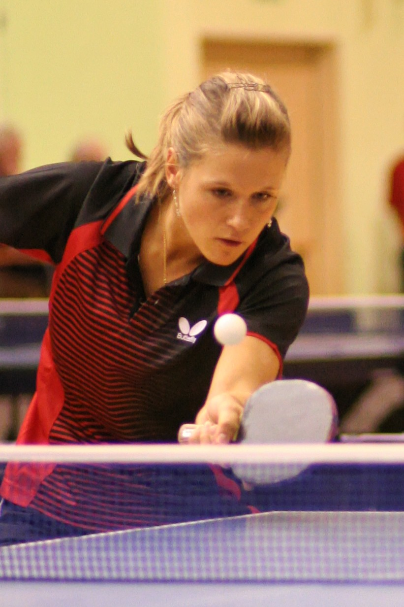 Natalia Partyka - polish disabile table tennis player